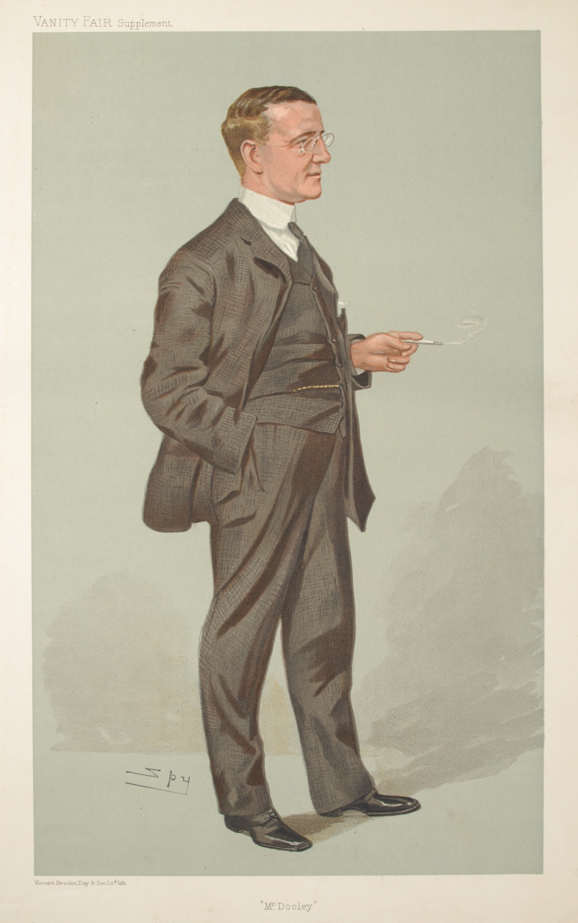 Caricature of Finley Peter Dunne (1867-1936). Caption read "Mr Dooley".